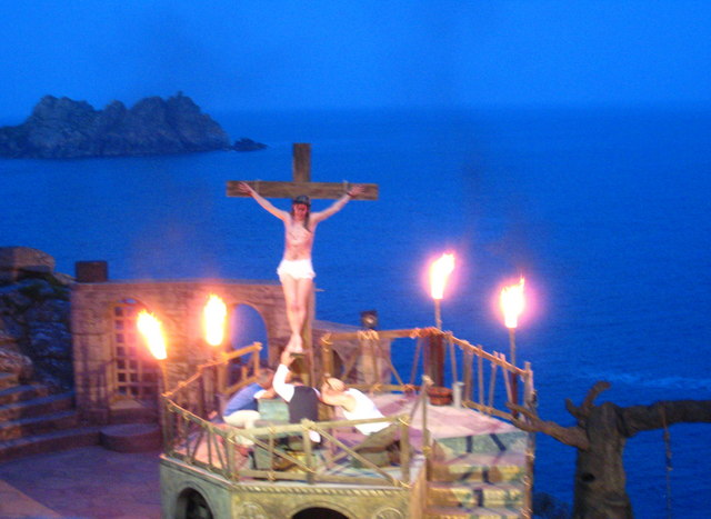 Jesus Christ Superstar at the Minack Theatre, near to St Levan, Cornwall, Great Britain. A moving finale to the performance by the excellent Barnstormers Theatre Company from Oxted. Directed by Neil Reynolds